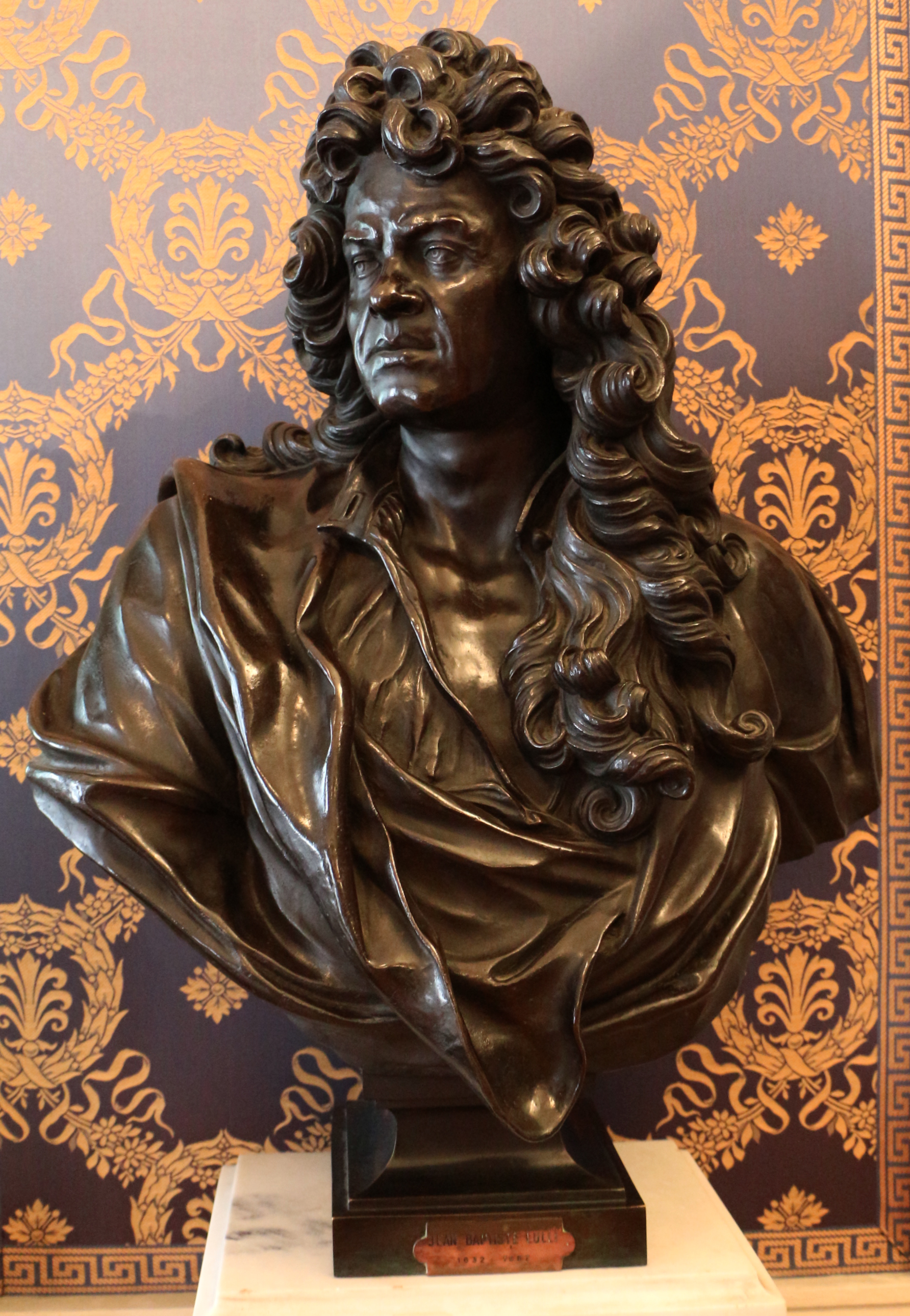 Museo del Teatro alla Scala (Milan)